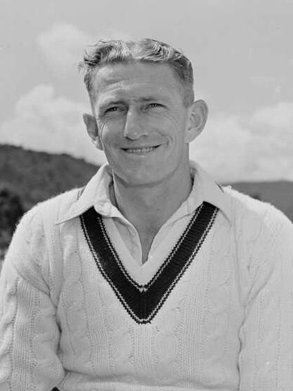 Members of the Australian Cricket Team, Johnson and Hayward, photographed in 1950 by an Evening Post photographer.